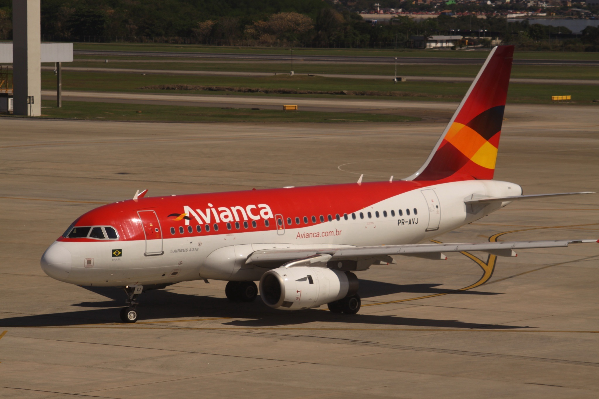 At Rio De Janeiro